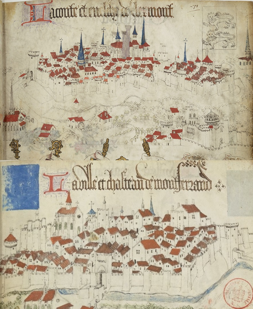 Villes de Clermont et de Montferrand par Guillaume Revel dans son Armorial d'Auvergne. Montage par Aavitus.